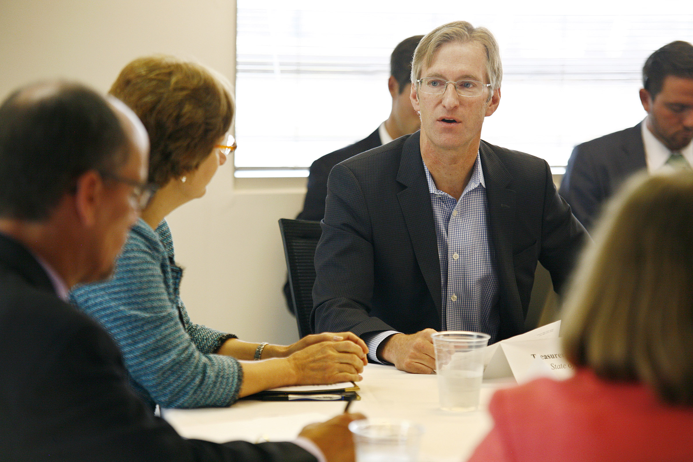 U.S. Department of Labor Secretary Thomas E. Perez, left, and Rep. Suzanne Bonamici, listen to Oregon State Treasurer Ted Wheeler at the Alzheimer’s Association of Oregon in Portland, Oregon on 08/26/2015. Andrea J. Wright / The Wright Pictures for U.S. Department of Labor